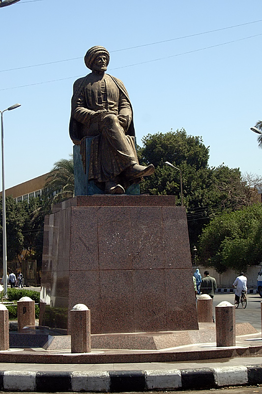 Memorial of Rifa'a Rafi' el-Tahtawi, Naser City, Sohag, Egypt